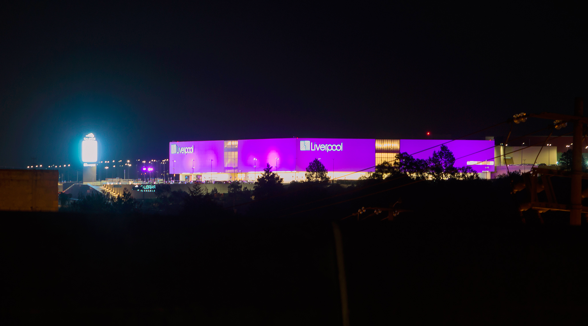 Centro Comercial Galerías Tlaxcala.